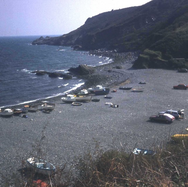 Porthallow beach Sheltered from south-west winds but with no natural harbour, so the boats are beached.